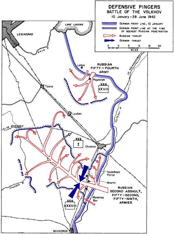 "DEPARTMENT OF THE ARMY PAMPHLET NO. 20-233" "GERMAN DEFENSE TACTICS AGAINST RUSSIAN BREAK-THROUGHS" October, 1951. United States Army.